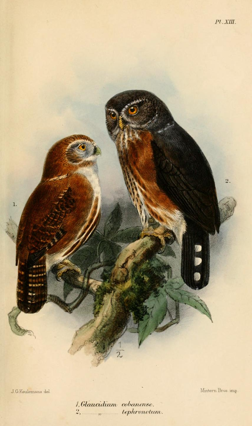 Glaucidium cobanense Guatemalan Pygmy-owl (left); and Glaucidium tephronotum Red-chested Owlet (right)